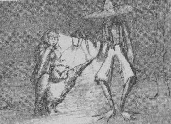 Puddleglum